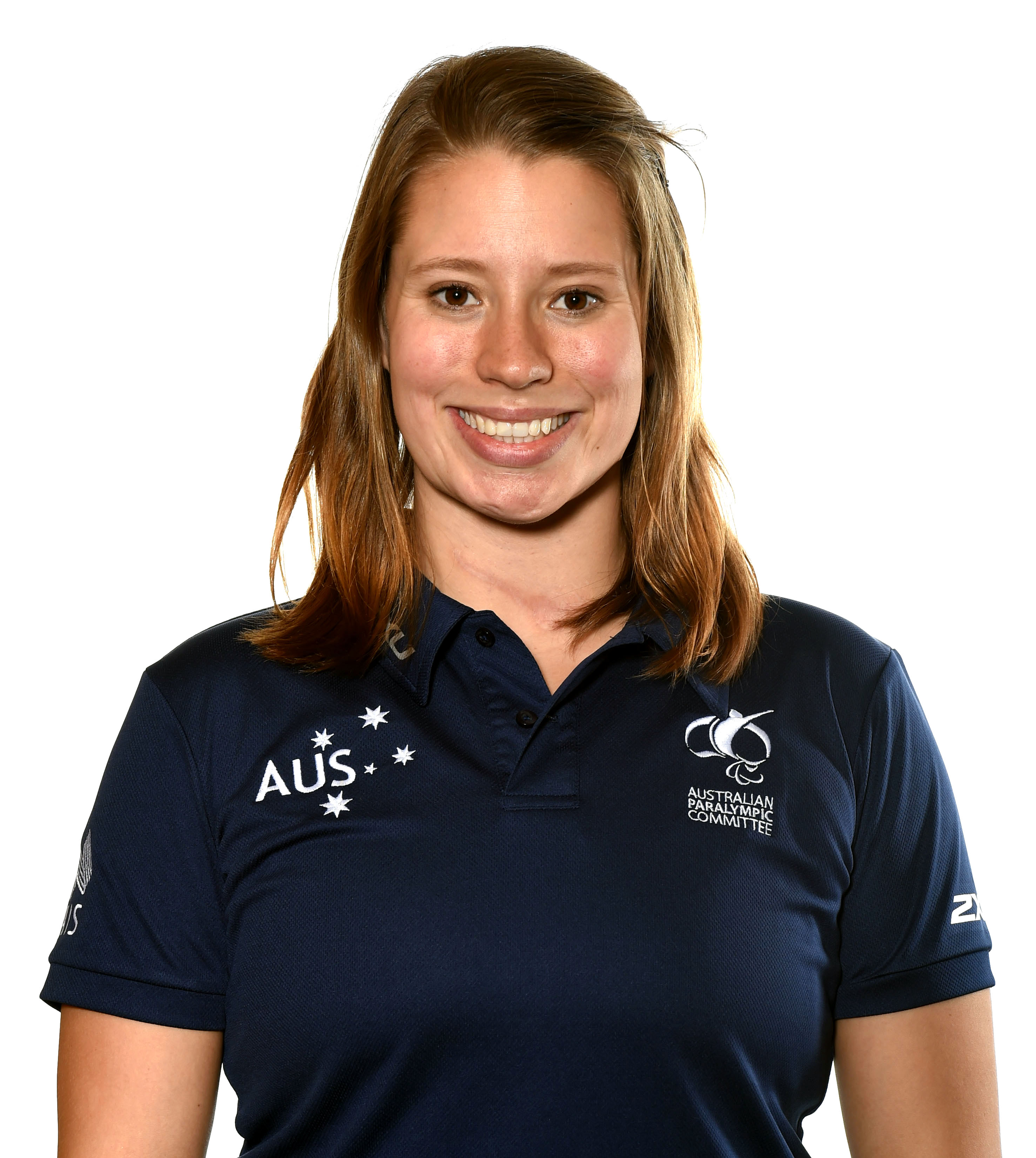 Media photo of 2016 Australian Paralympic Team Member Monique Murphy